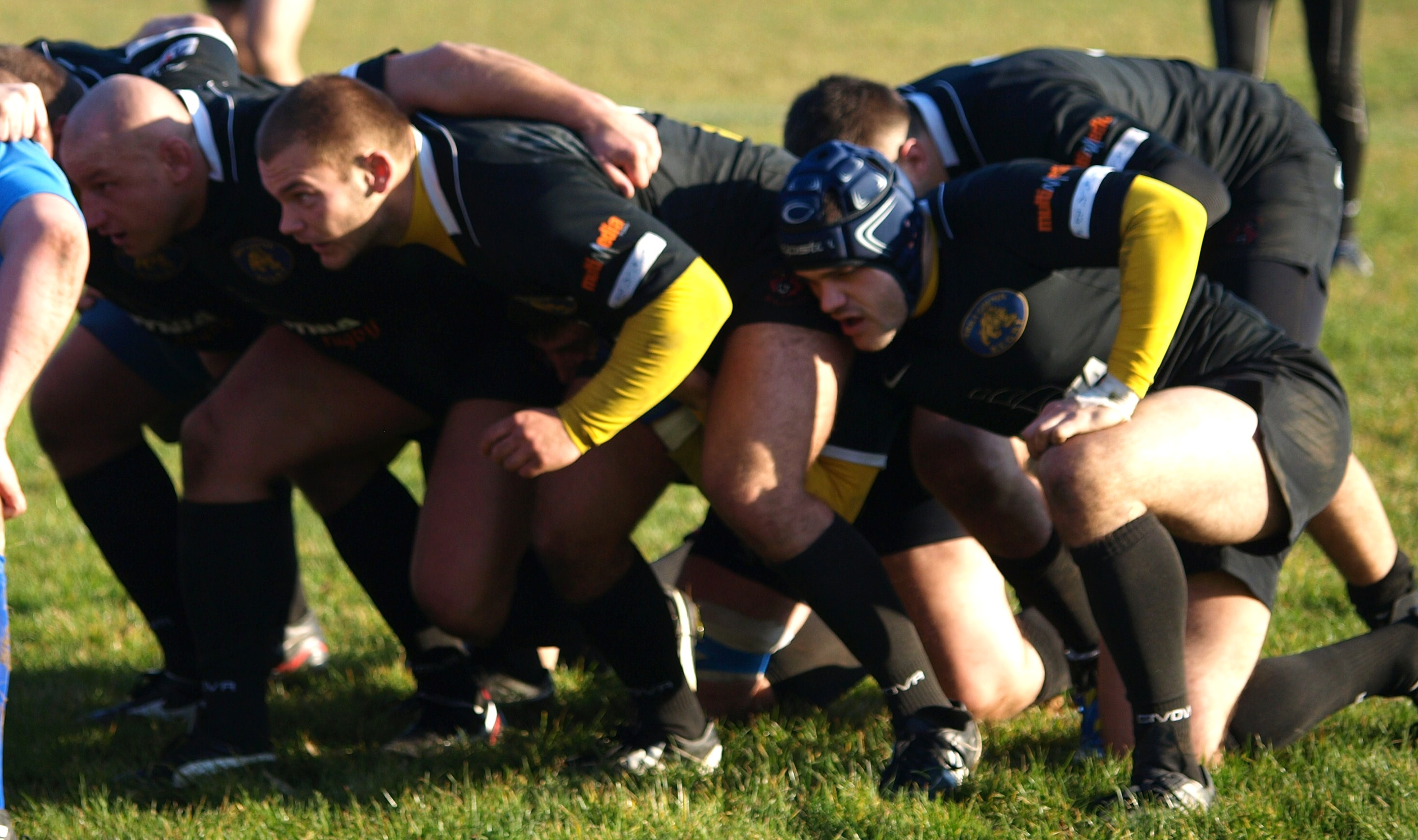 Rugby Club Arka Gdynia (Poland).